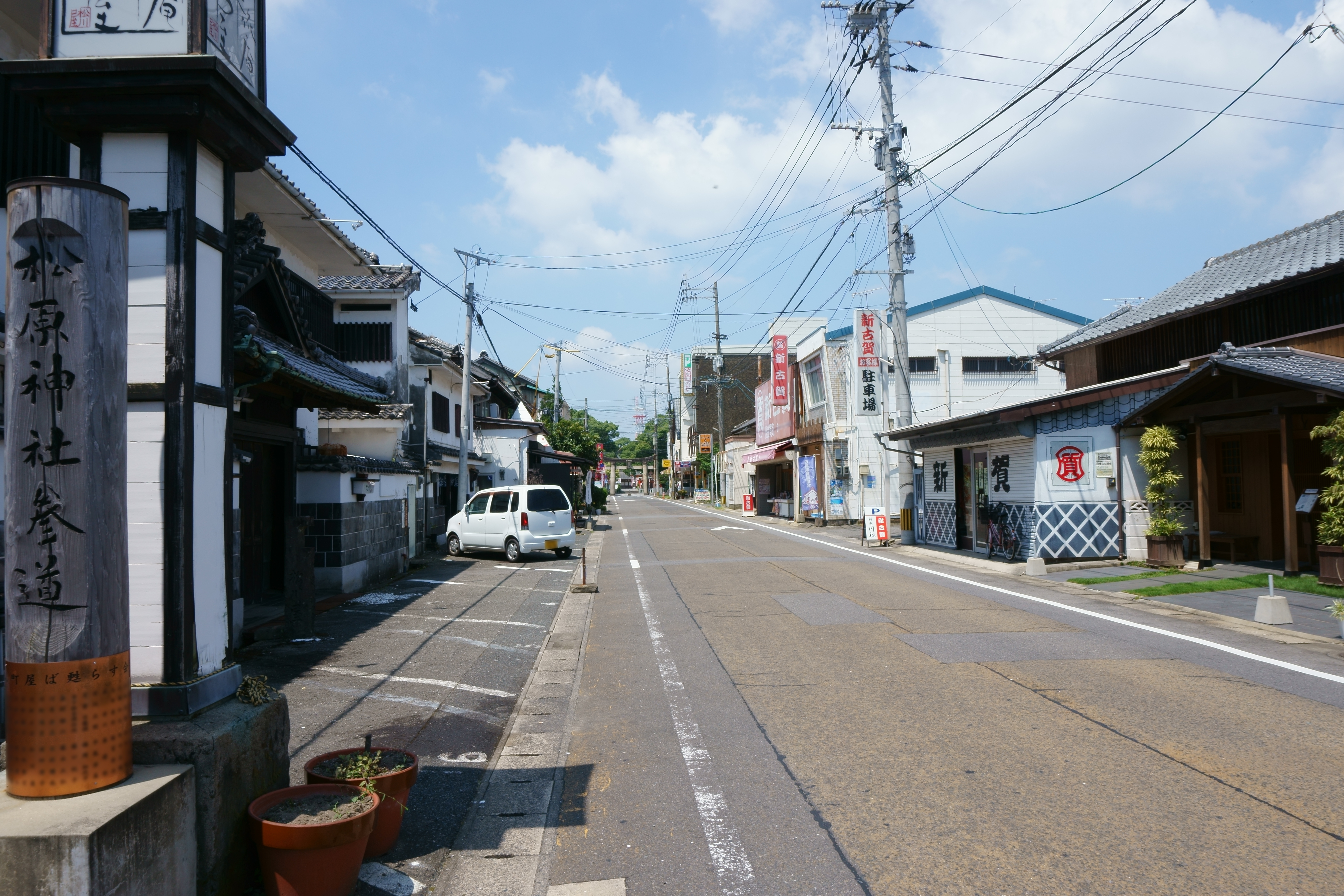 A street in front of Matsubara Shrine in Matsubara, Saga city, Saga prefecture, Japan. It also called "Shin-baba Dōri".